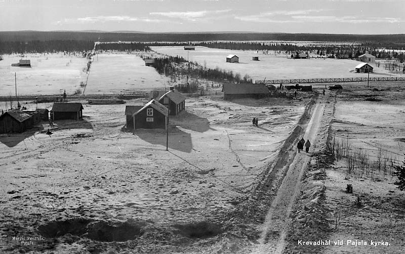 After bombing of Pajala 1940